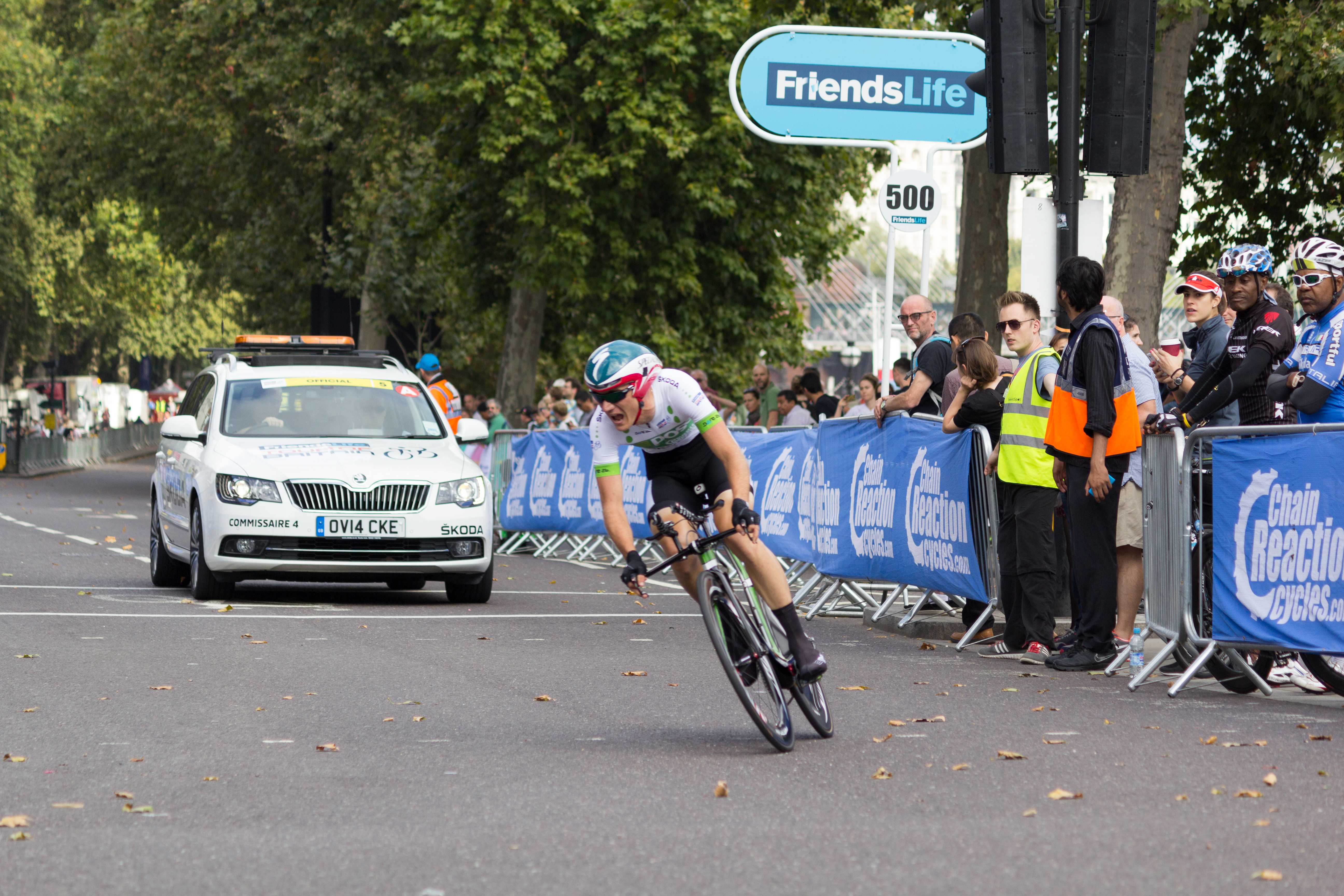 Tour of Britain 2014 stage 8a - London time trial